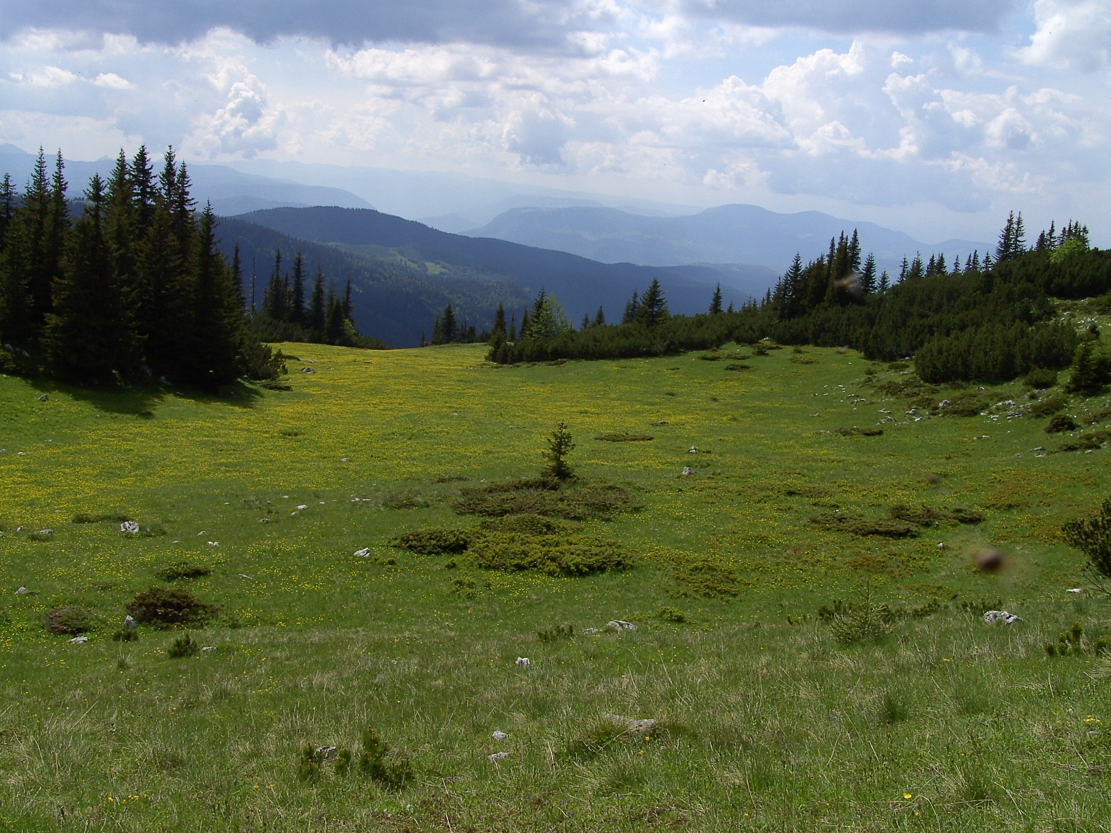 Ljubišinja hills, BiH